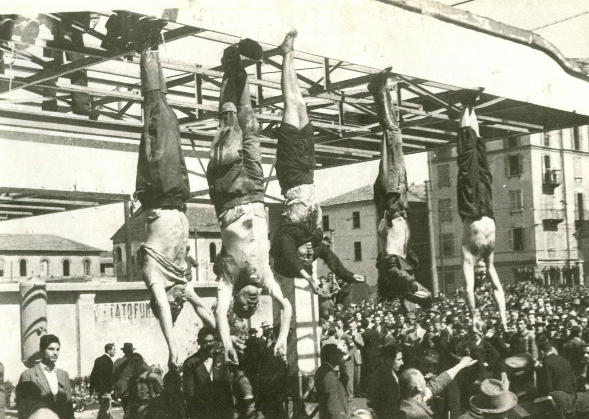 The dead body of Benito Mussolini next to his mistress Claretta Petacci and those of other executed fascists, on display in Milan on 29 April 1945, in Piazzale Loreto, the same place that the fascists had displayed the bodies of fifteen Milanese civilians a year earlier after executing them in retaliation for resistance activity. The photograph is by Vincenzo Carrese. The bodies, from left to right, are: Nicola Bombacci Benito Mussolini Claretta Petacci Alessandro Pavolini Achille Starace